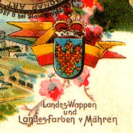 Moravian land colours and land coat of arms